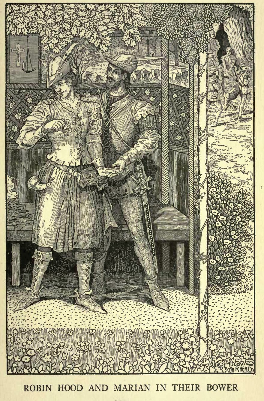 Robin Hood and Maid Marion in the Bower, from Robin Hood, Louis Rhead, 1912